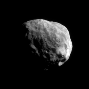 The Cassini spacecraft took this photograph of Saturn's moon Janus, looking toward the south polar region, on Feb. 20, 2008.